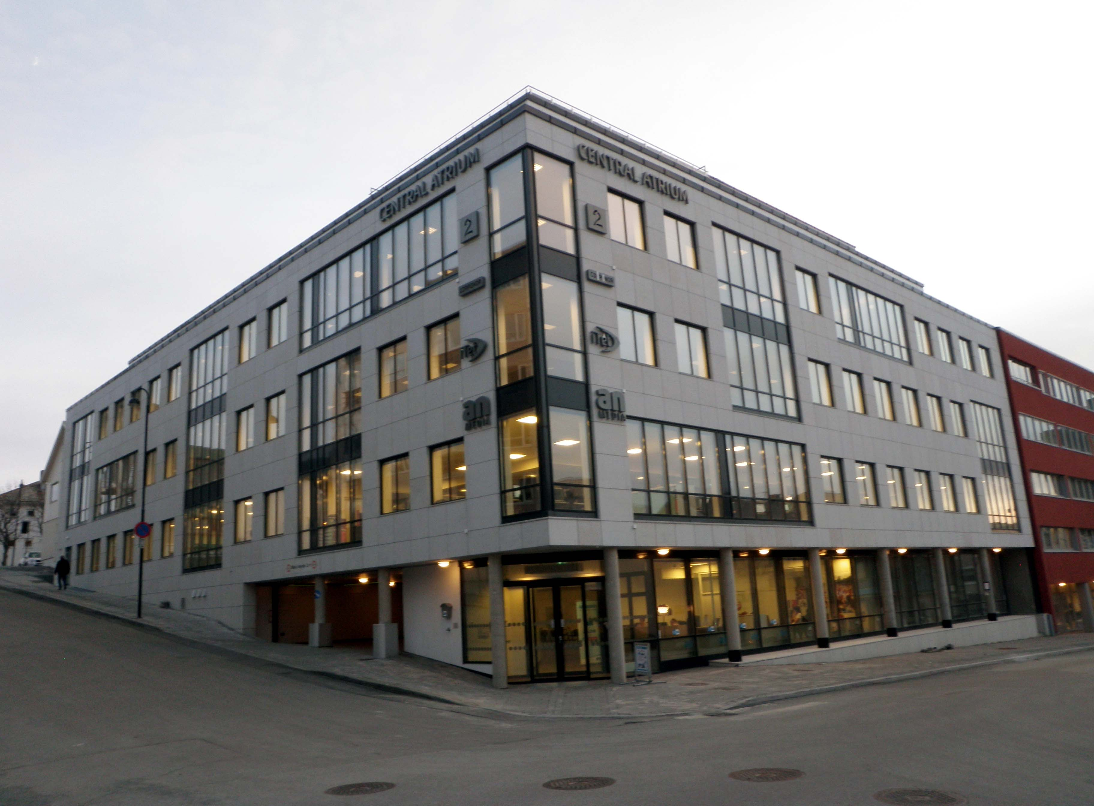 The Central Atrium building in Bodø, Nordland, Norway, housing amongst other companies, the headquarters of Avisa Nordland.